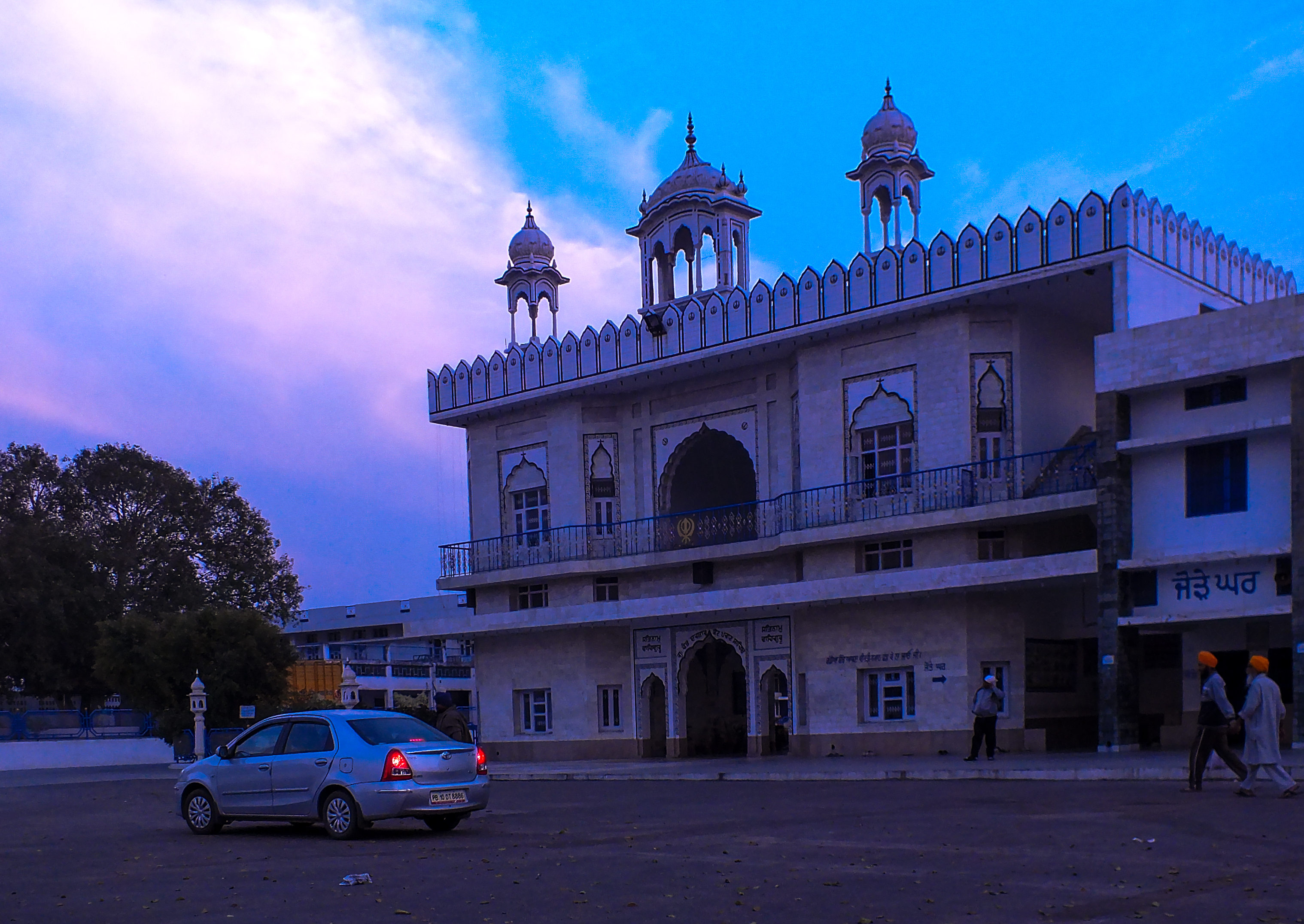 This is the main entrance of the Gurudwara